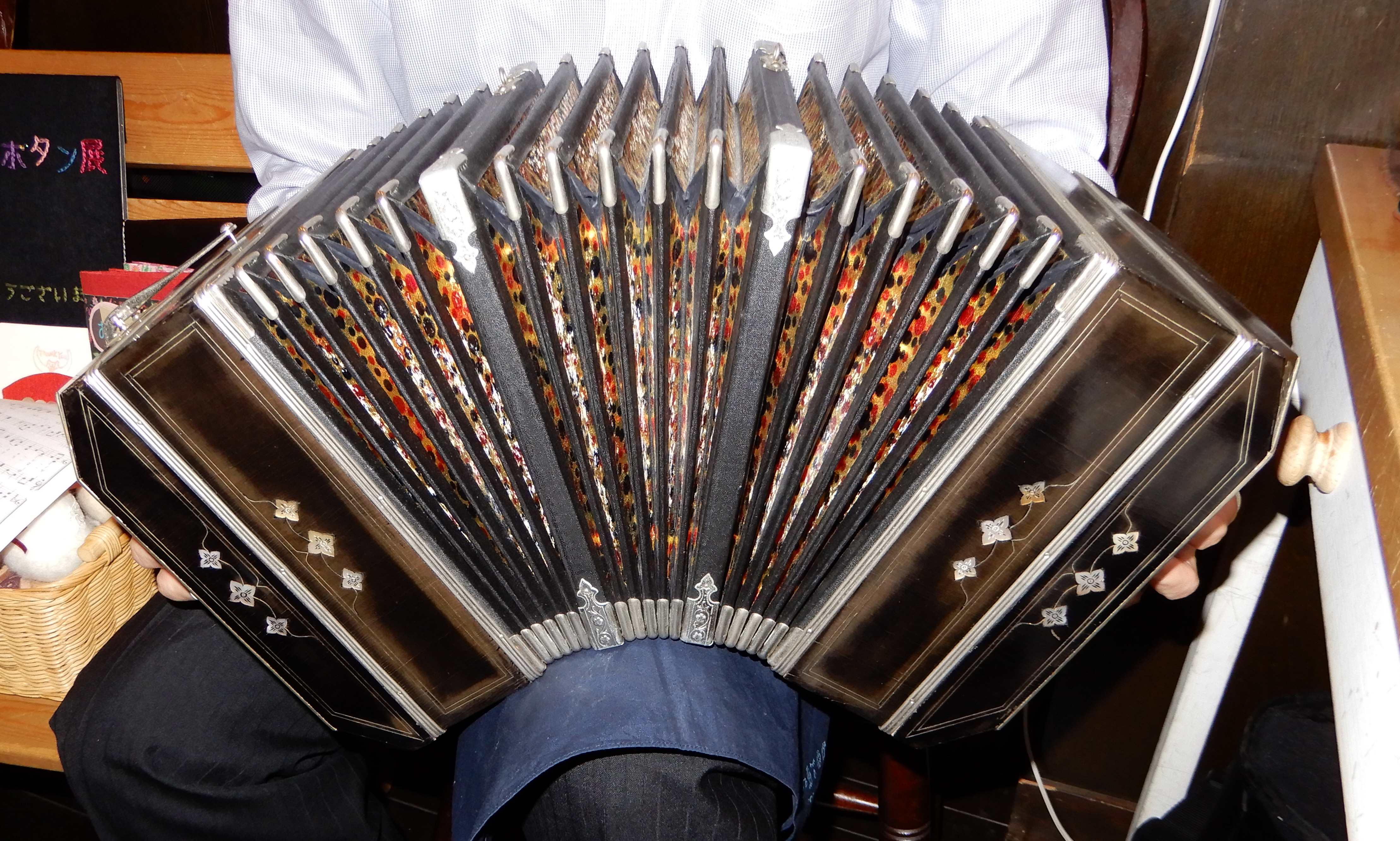 Mr.Takeda's (Takashi TAKEDA) Alfred Arnold bandoneon. This photo was taken at the monthly event entitled BANDONEON TOMO NO KAI (Meeting of Bandoneons' Friends) which is held at the cafe HOMERI, 2f., BOW Building, San'ei-cho 25-33, Shinjuku City, Tokyo.